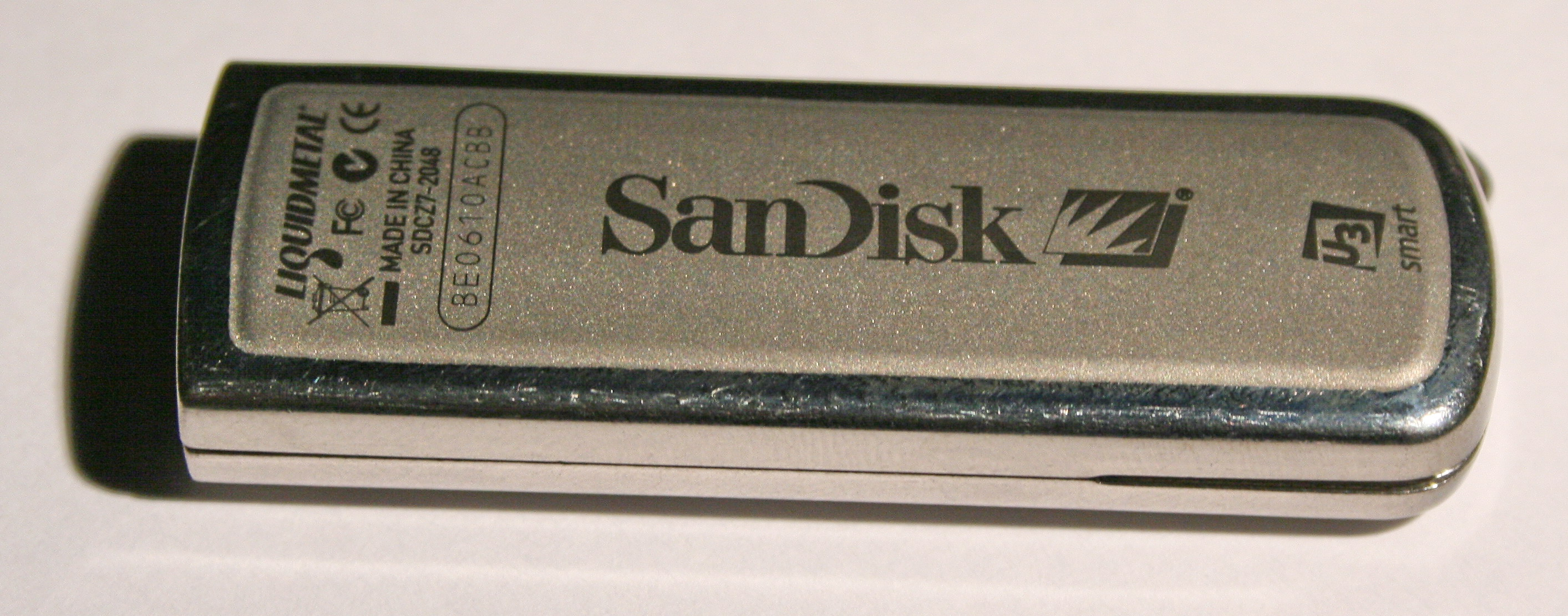 USB flash drive manufactured by SanDisk; Dimensions: 58x20,8x9mm